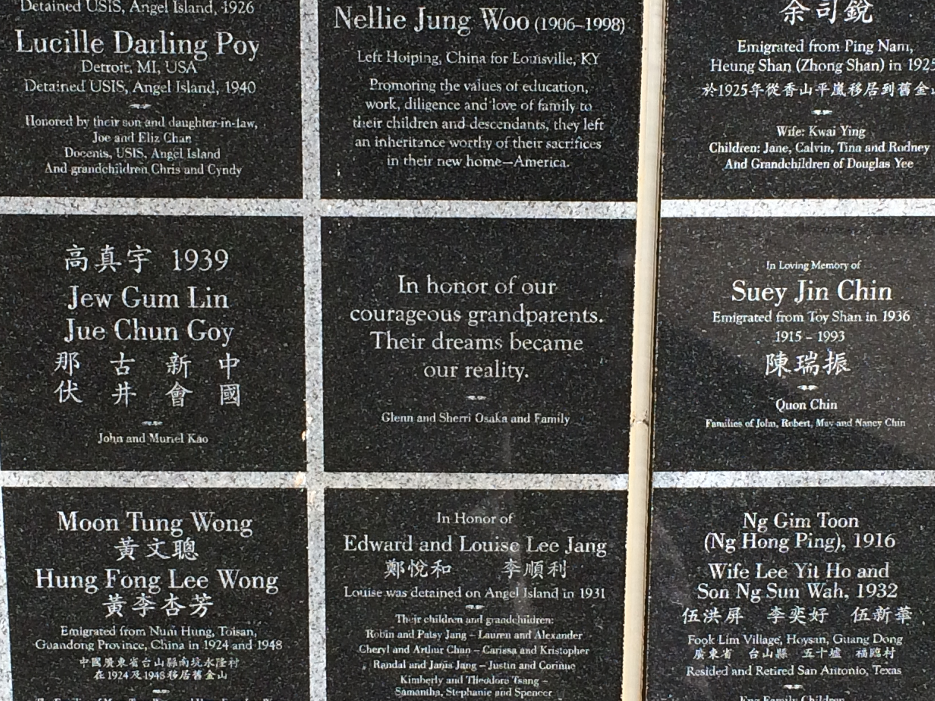 Commemorative plaques at the U.S. immigration station on Angel Island installed by descendants of Asian immigrants who were retained and interrogated there.